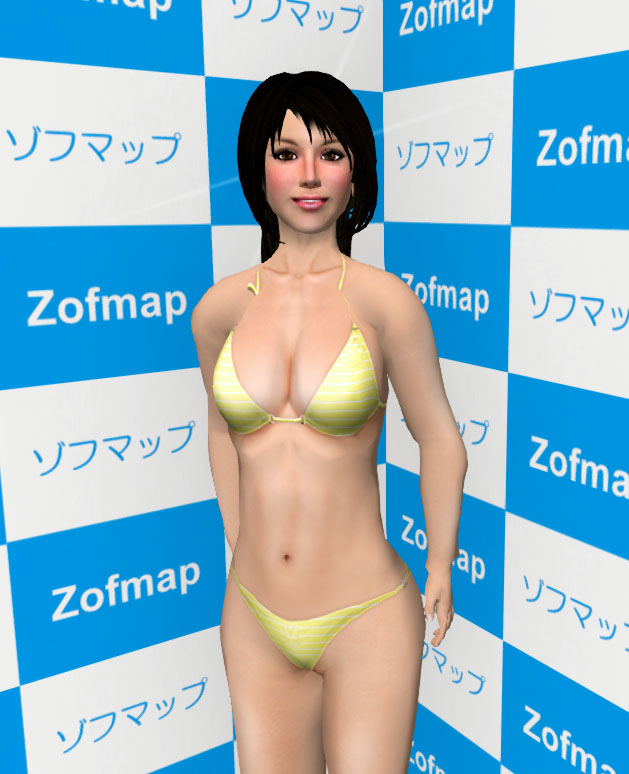 Example of photo shooting at Sofmap (Electronics retail store in Tokyo, Japan)